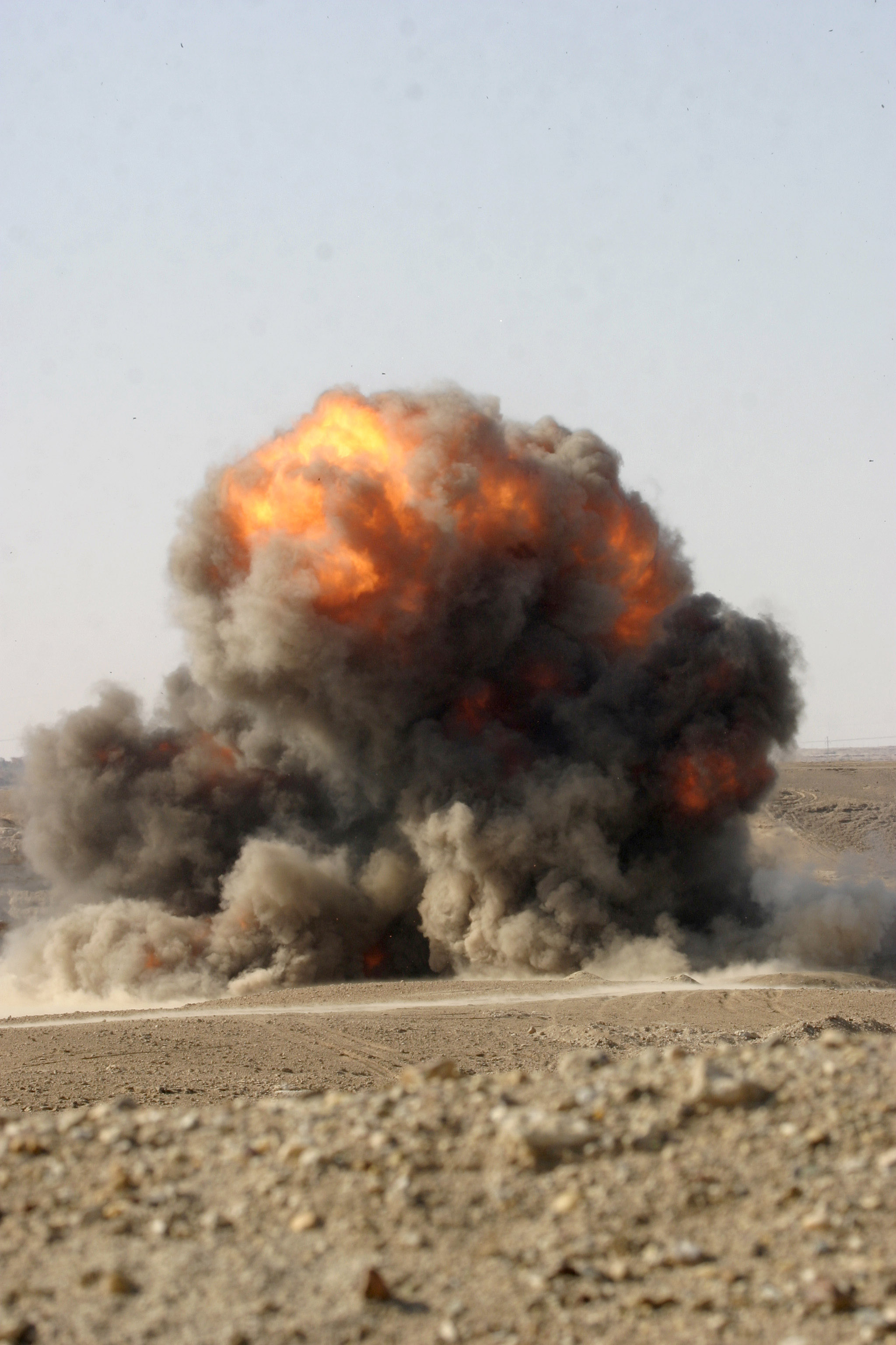 Barwana, Iraq (Jan. 15, 2006) - Marines from 2nd Platoon, Lima Company, 3rd Battalion, 1st Marine and Sailors from Explosive Ordnance Disposal Mobile Unit Six (EODMU-6) destroy rockets, mortars and bags of repellant for by an interpreter working with the Marines. The 2nd Marine Division is deployed in support of the global war on terrorism by supporting the development of Iraqi Security Force, the reconstruction of Iraq including democratic elections and to facilitate the creation of a secure environment that enables Iraqi self-reliance and self-governance. U.S. Marine Corps photo by Lance Cpl. Shane S. Keller (RELEASED)